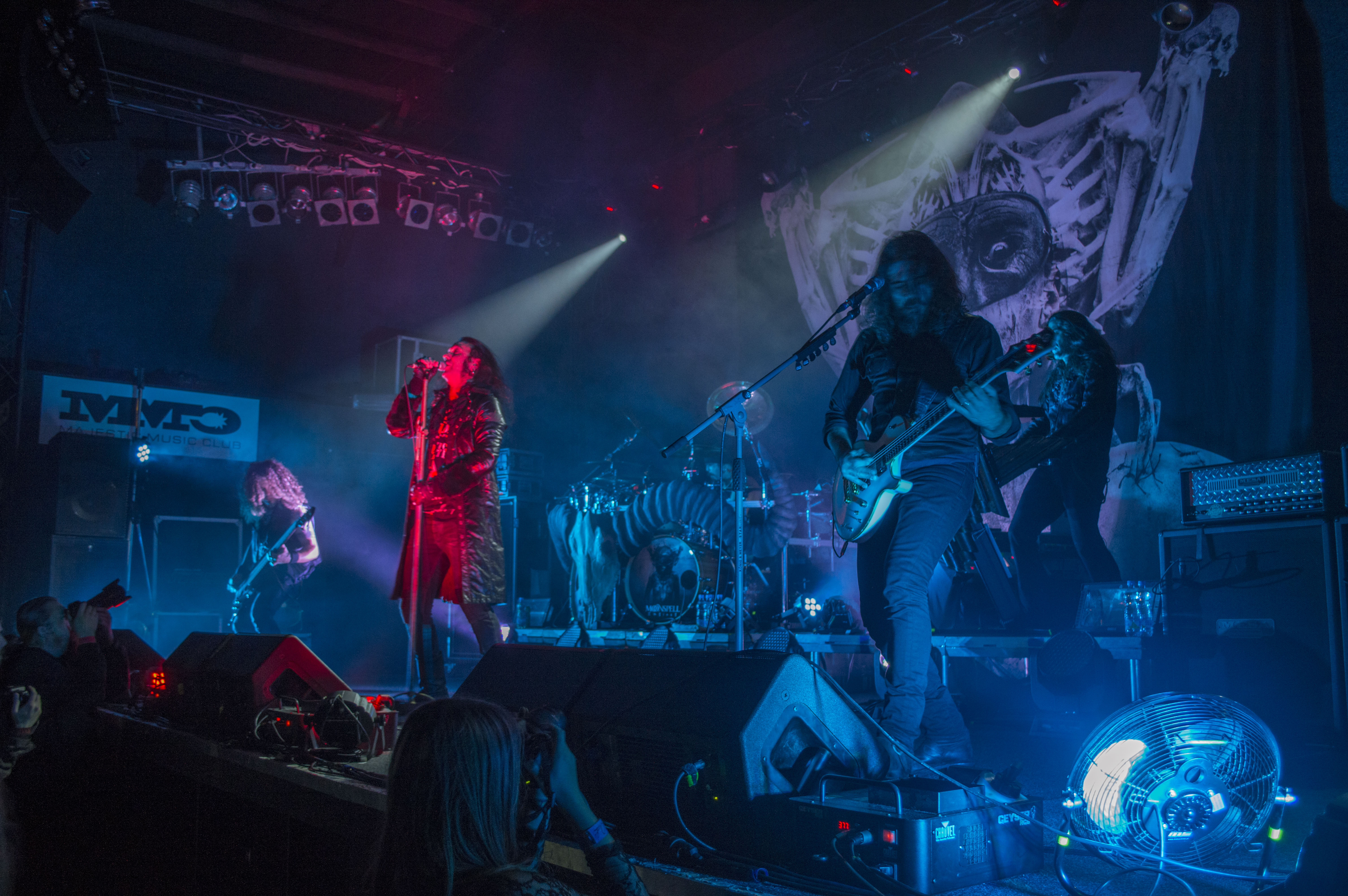 Moonspell at Bratislava, Majestic club, 27th October 2015.